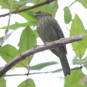 Uniform Finch at São Luiz do Paraitinga - SP - Brazil